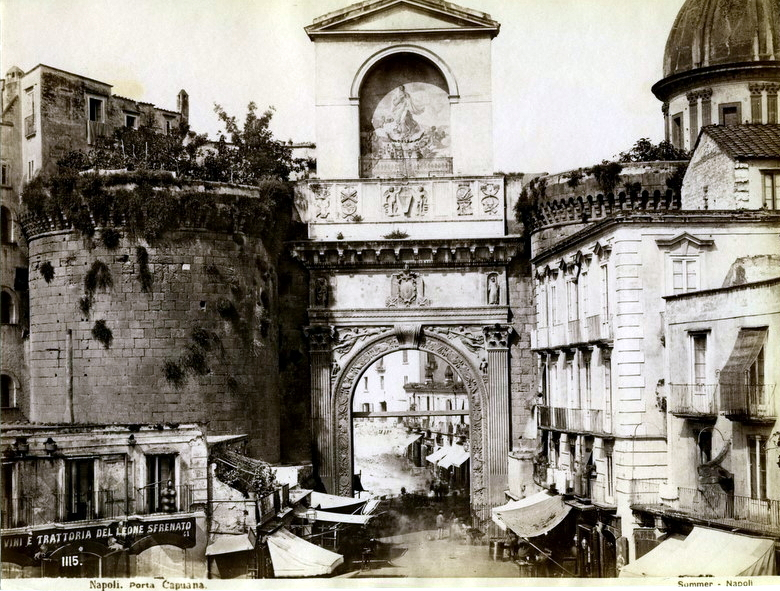 Giorgio Sommer (1834-1914), "Naples - porta capuana city gate". Catalogue #: 1115. 1880s. 1880s. Today.